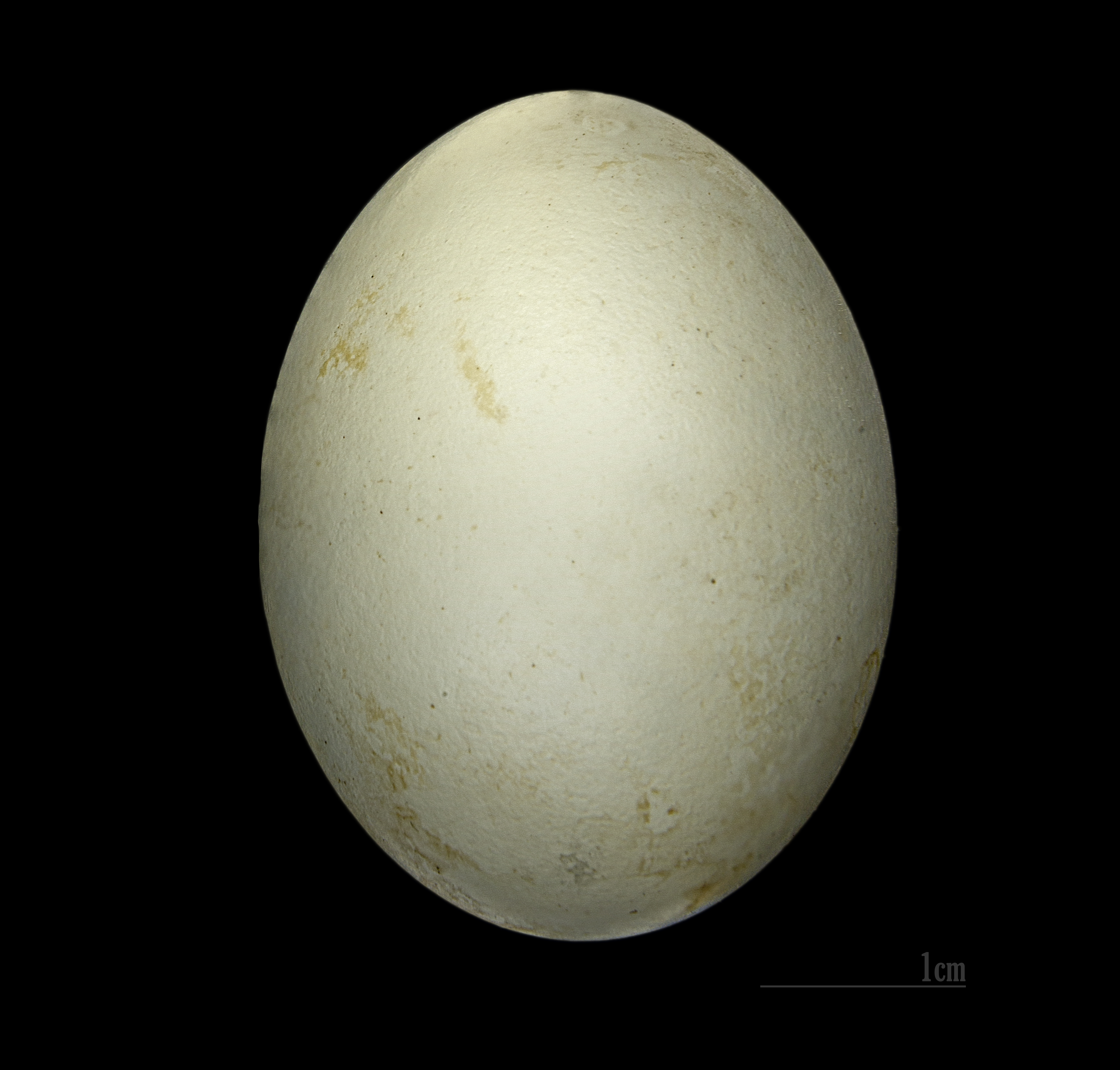 Egg of Great Spotted Woodpecker . Collection of Jacques Perrin de Brichambaut.